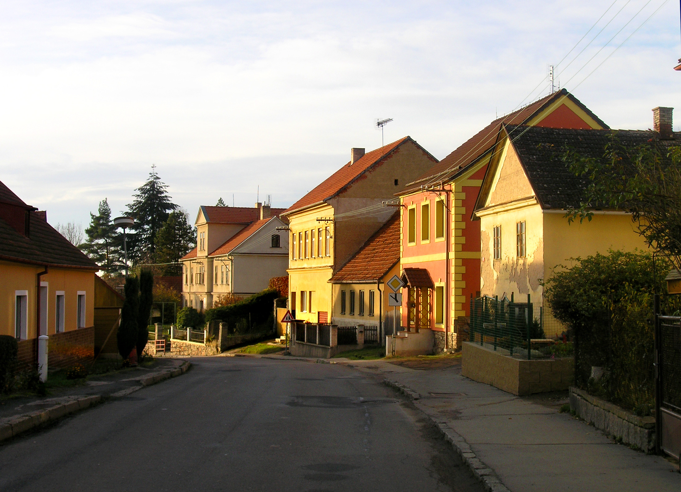 Pražská street in Ondřejov, Czech Republic